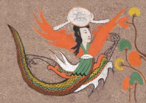 Moon goddess from one of the chambers of the Goguryeo tombs, the Goguryeo-era Ohoe Tomb 4, the 67th national treasure of Korea.